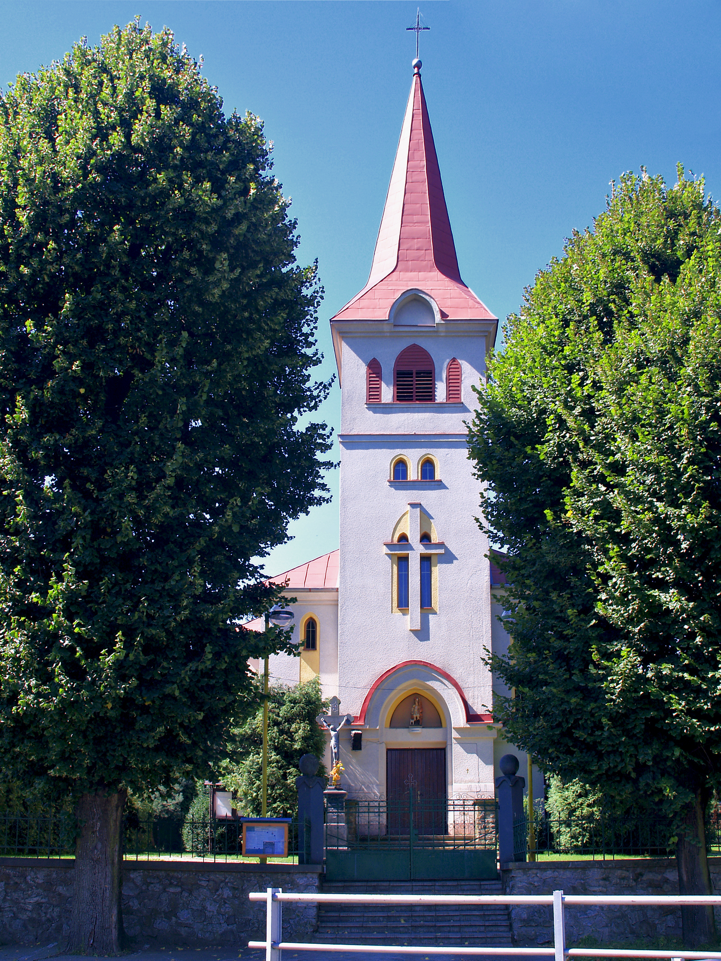 Brekov - Church